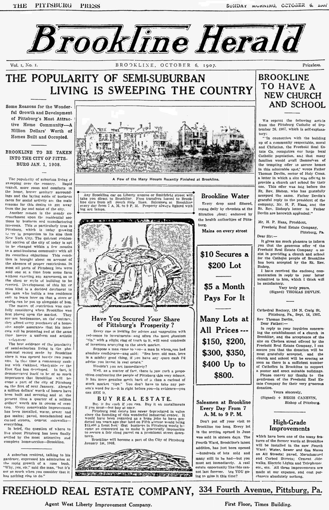 An article in the Brookline Herald describing the opening of Resurrection church and school.